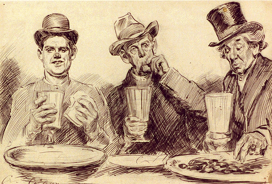 Free lunch, by Charles Dana Gibson. Published in Other People by Charles Dana Gibson. New York: Charles Scribner’s Sons; London: John Lane, 1911, Library of Congress